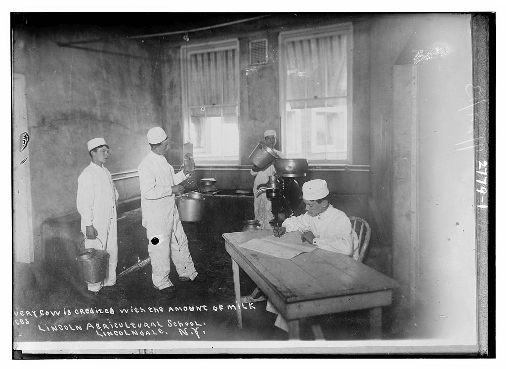 Bain News Service,, publisher. Lincoln Ag School, Lincoldale, N.Y. Lincolndale Agricultural School [no date recorded on caption card] 1 negative : glass ; 5 x 7 in. or smaller. Notes: Title from unverified data provided by the Bain News Service on the negatives or caption cards. Forms part of: George Grantham Bain Collection (Library of Congress). Format: Glass negatives. Repository: Library of Congress, Prints and Photographs Division, Washington, D.C. 20540 USA, General information about the Bain Collection is available at Persistent URL: Call Number: LC-B2- 2779-1